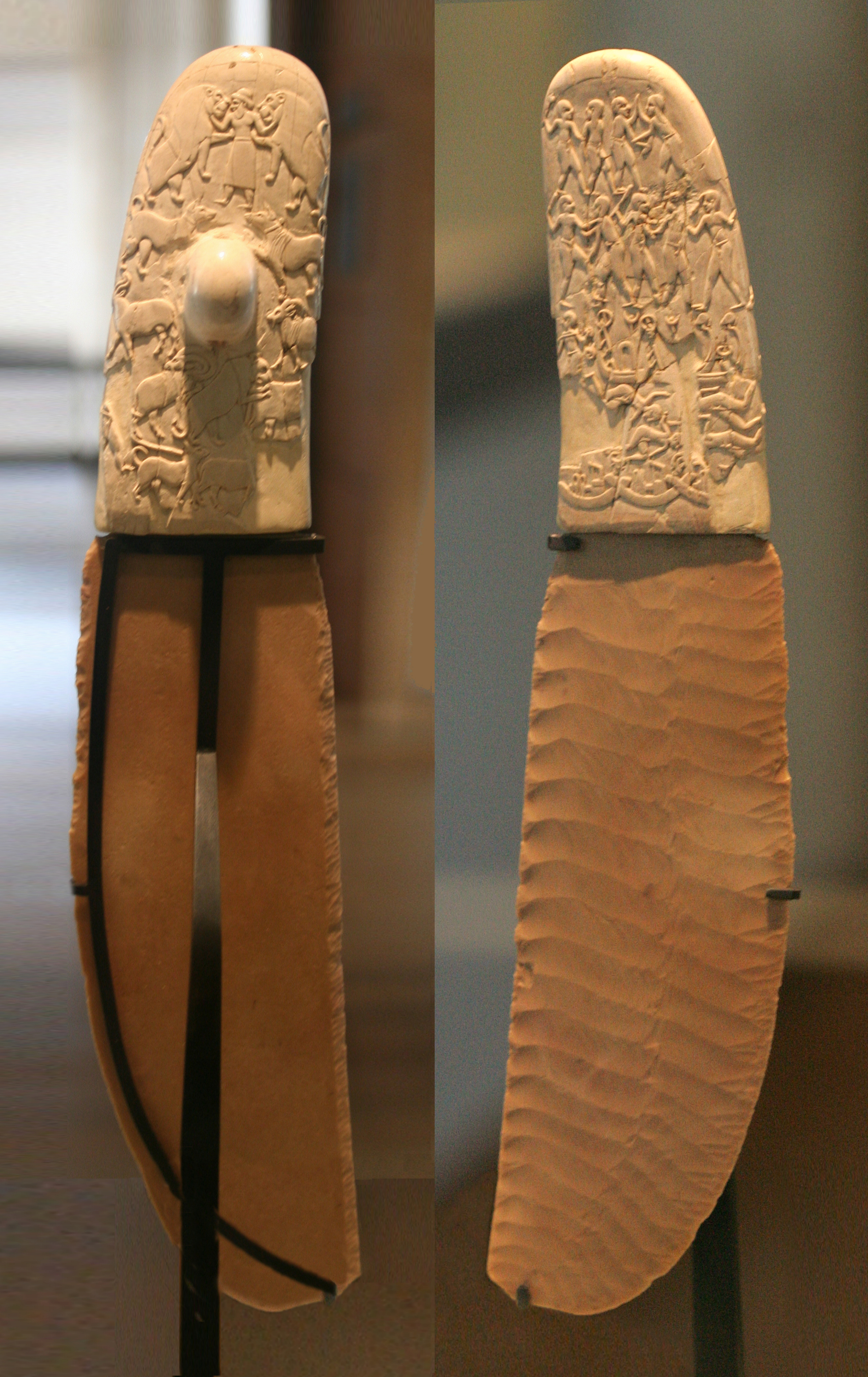 Gebel el-Arak knife (front and back)